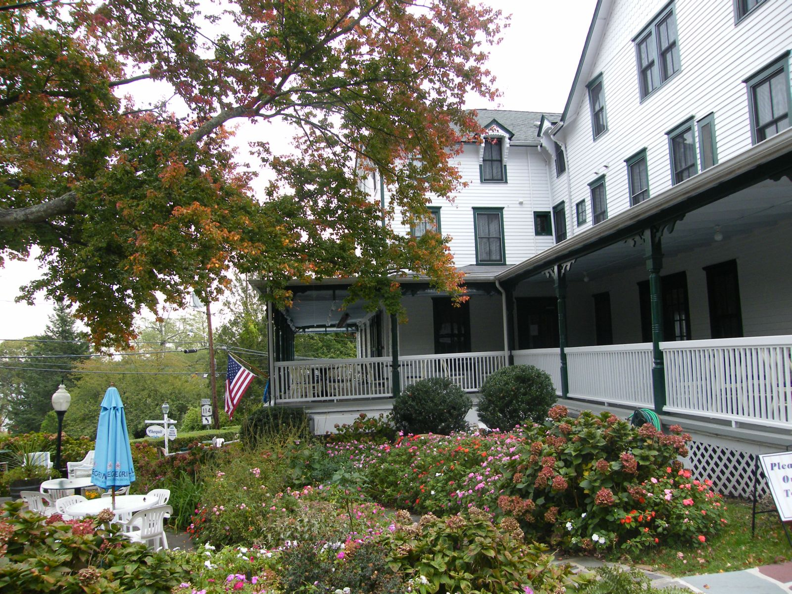 Chequit Hotel in Shelter Island Heights